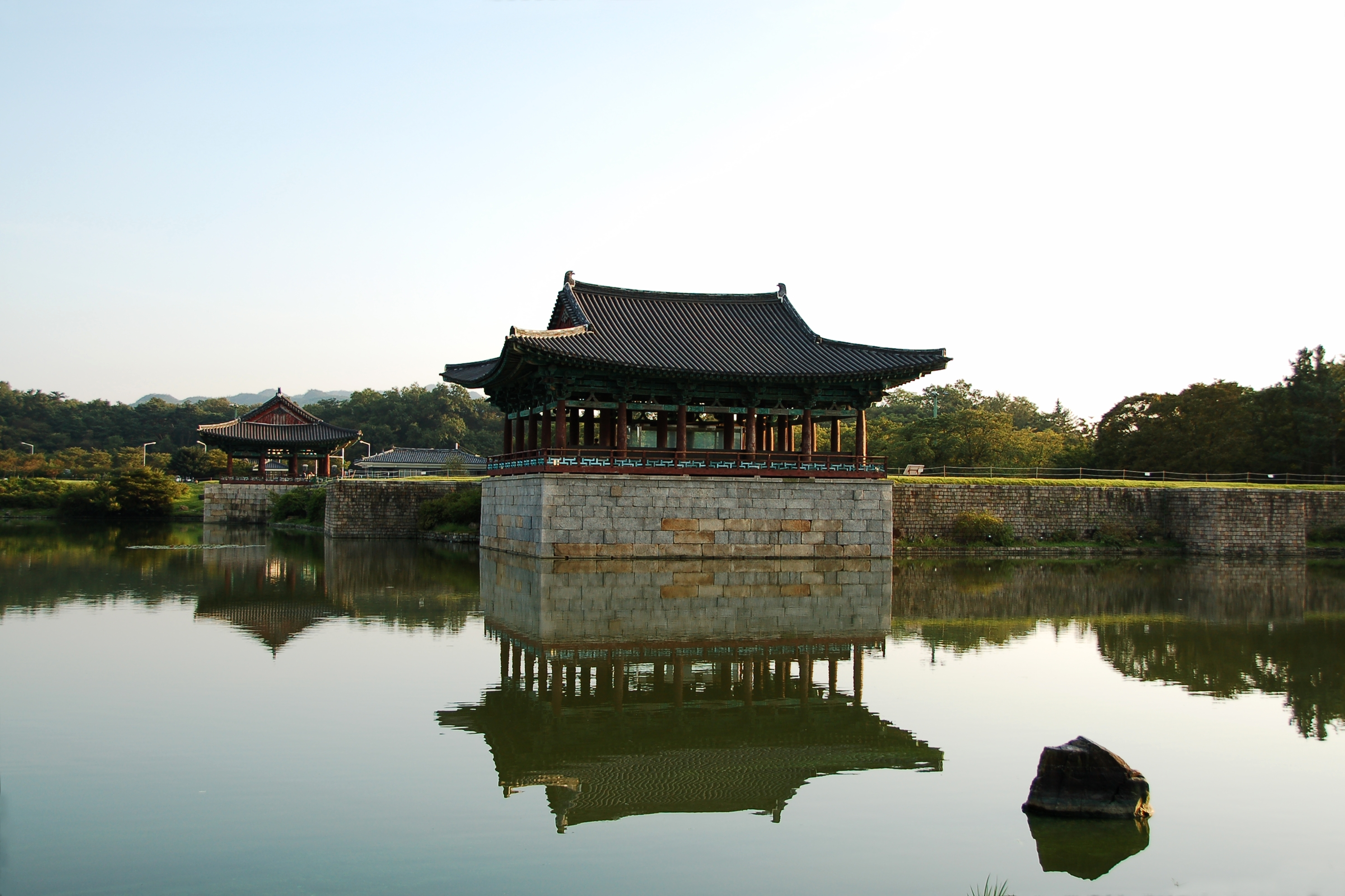 Anapji, an artificial pond located in Gyeongju National Park, South Korea. Gyeongju was the ancient capital of the Silla kingdom and the pond was constructed by order of King Munmu in 674 CE. Anapji is situated at the northeast edge of the Banwolseong palace site, in central Gyeongju. It contains three small islands.